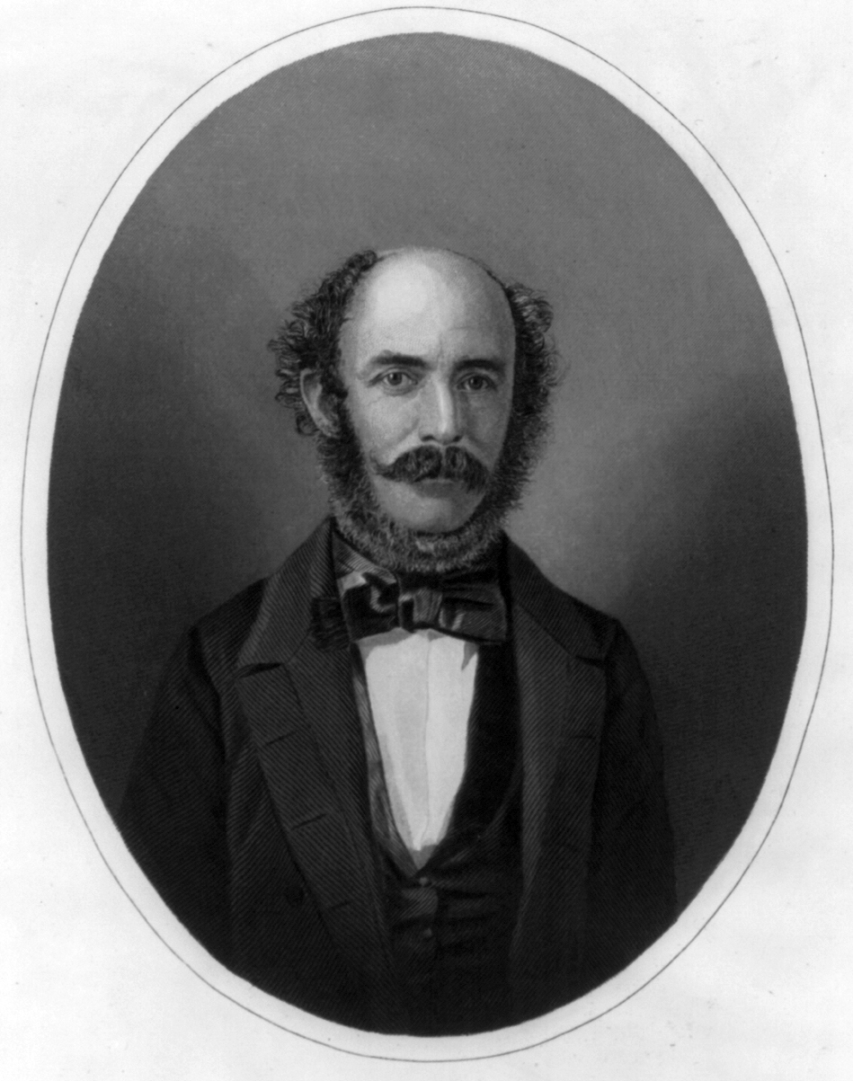 John Randolph Clay, American diplomat to Peru. Illus. in: Portraits of Eminent Americans (1853), oppos. p. 133.